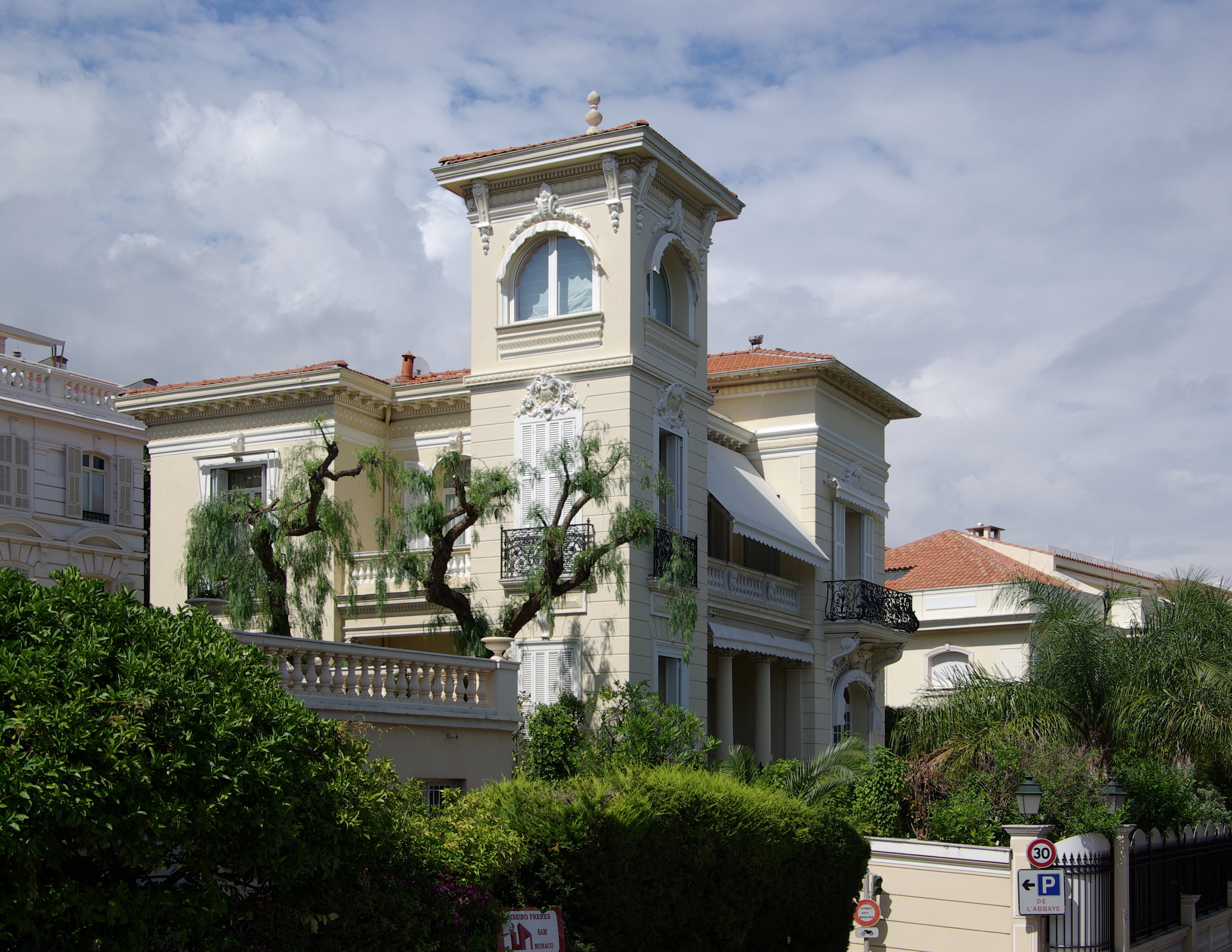 Monaco, Building at the Avenue Saint-Martin